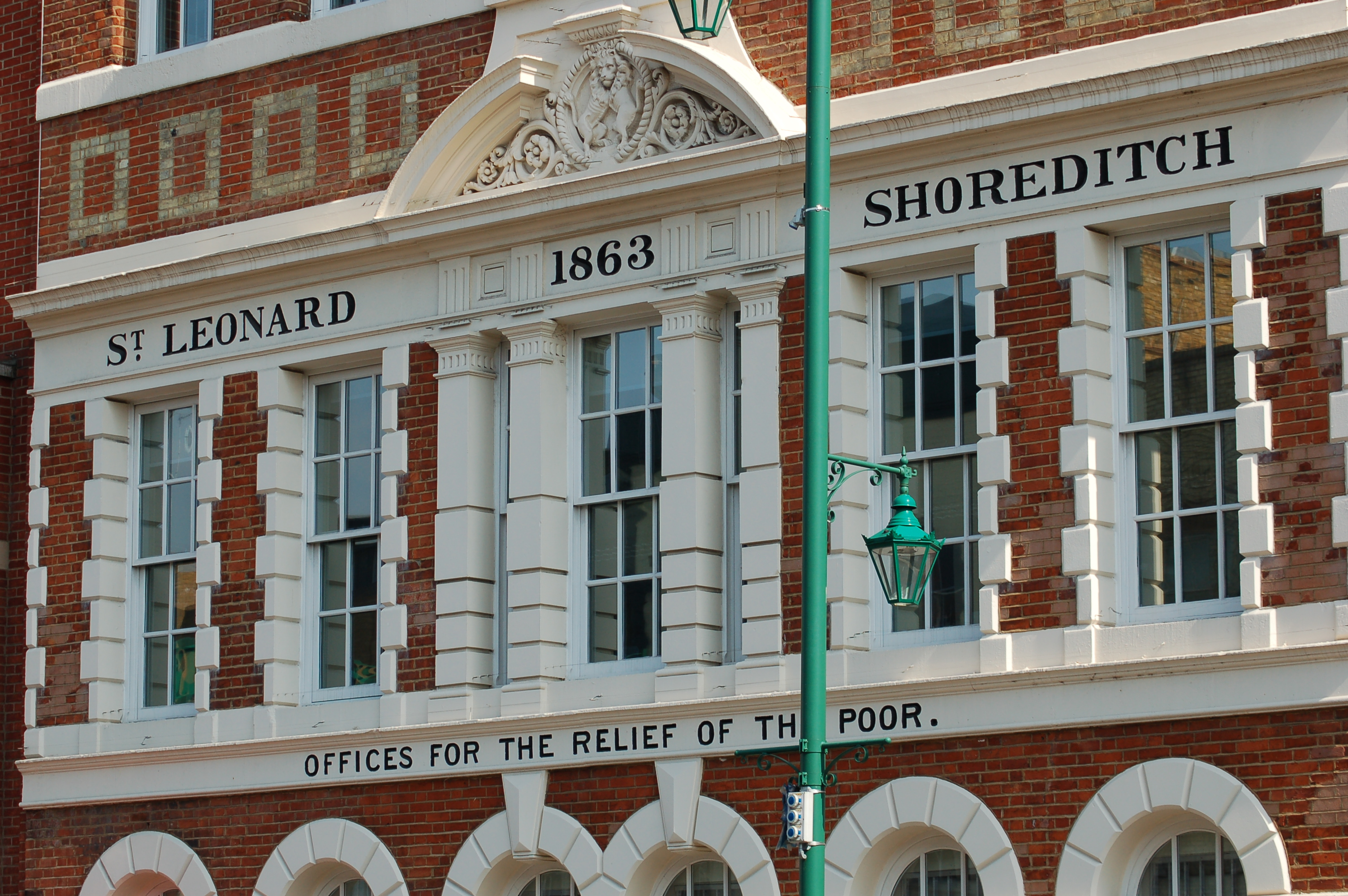 Own work, pls attribute, tx K.B Thompson